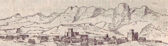 19th century engraving of the historic castle town Qandala, Somalia.